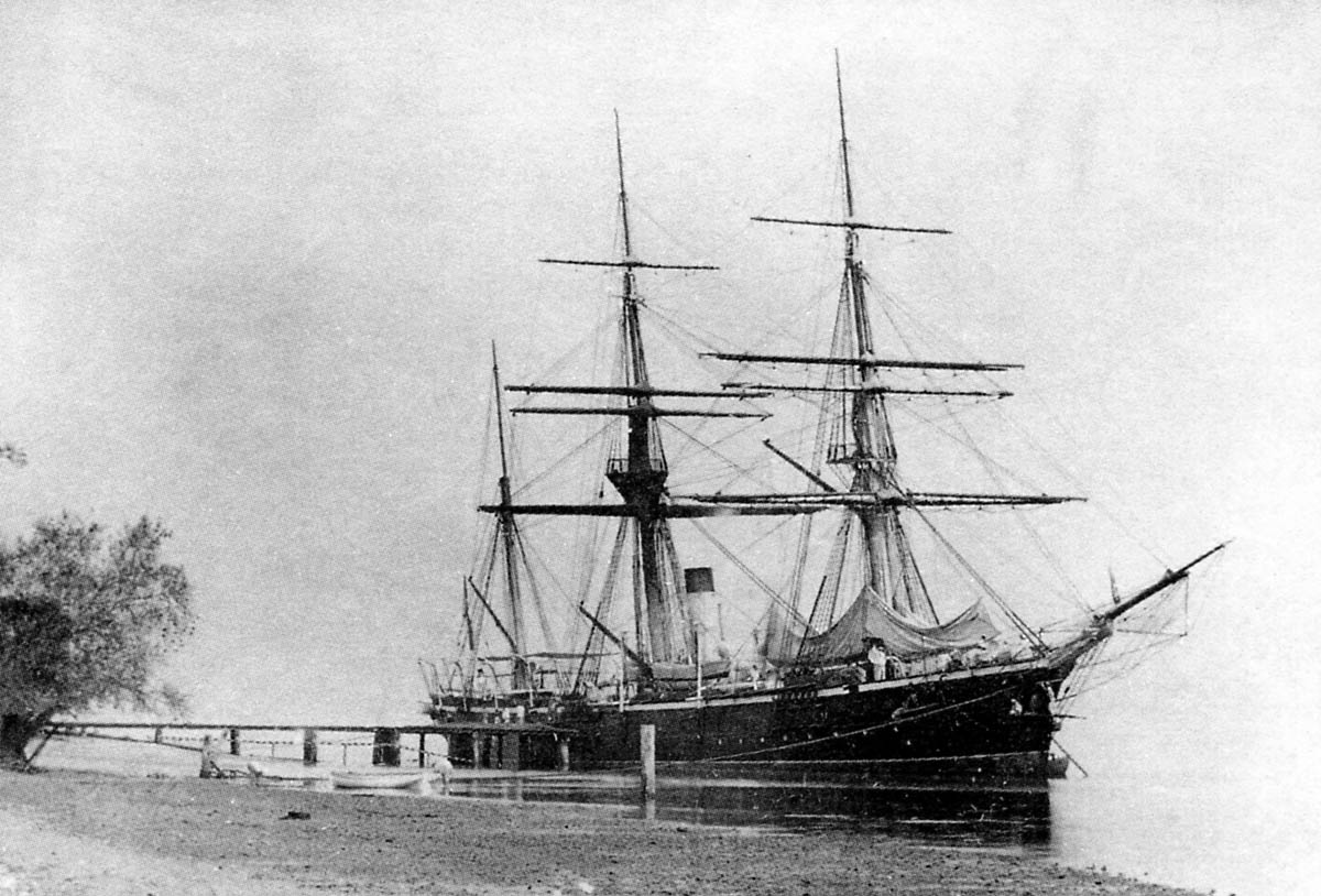 Imperial Russian clipper Naezdnik.